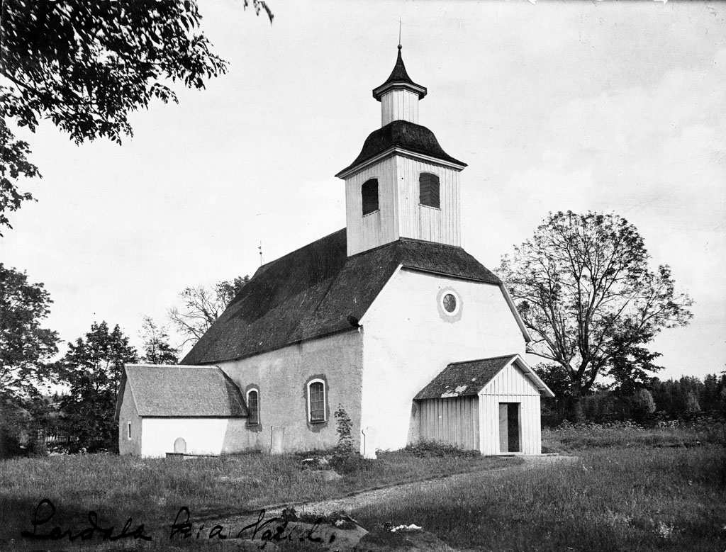 Lerdala Church, probably built at the end of the 12th century. The tower is from 1768. Format: Albumen print